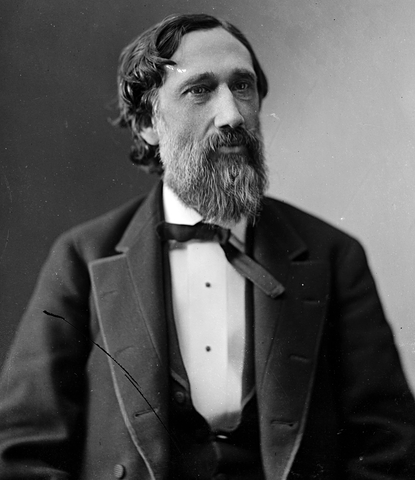 William W. Crapo, US Representative from Massachusetts